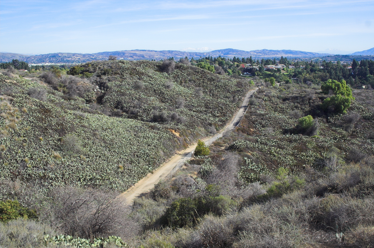 A view of Coyote Hills in Fullerton, California.